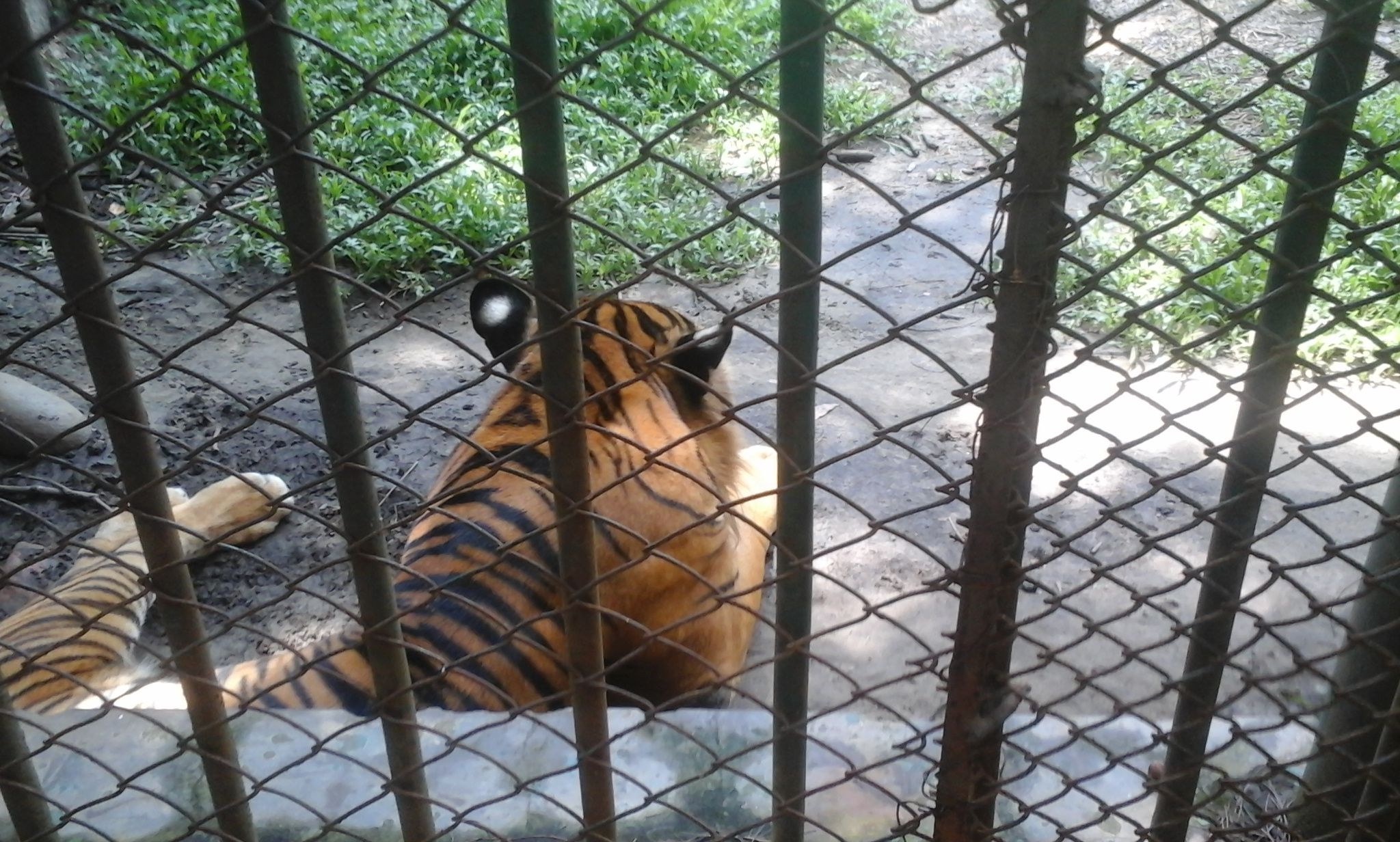 Royel Bangal Tiger of the Bangladesh national zoo